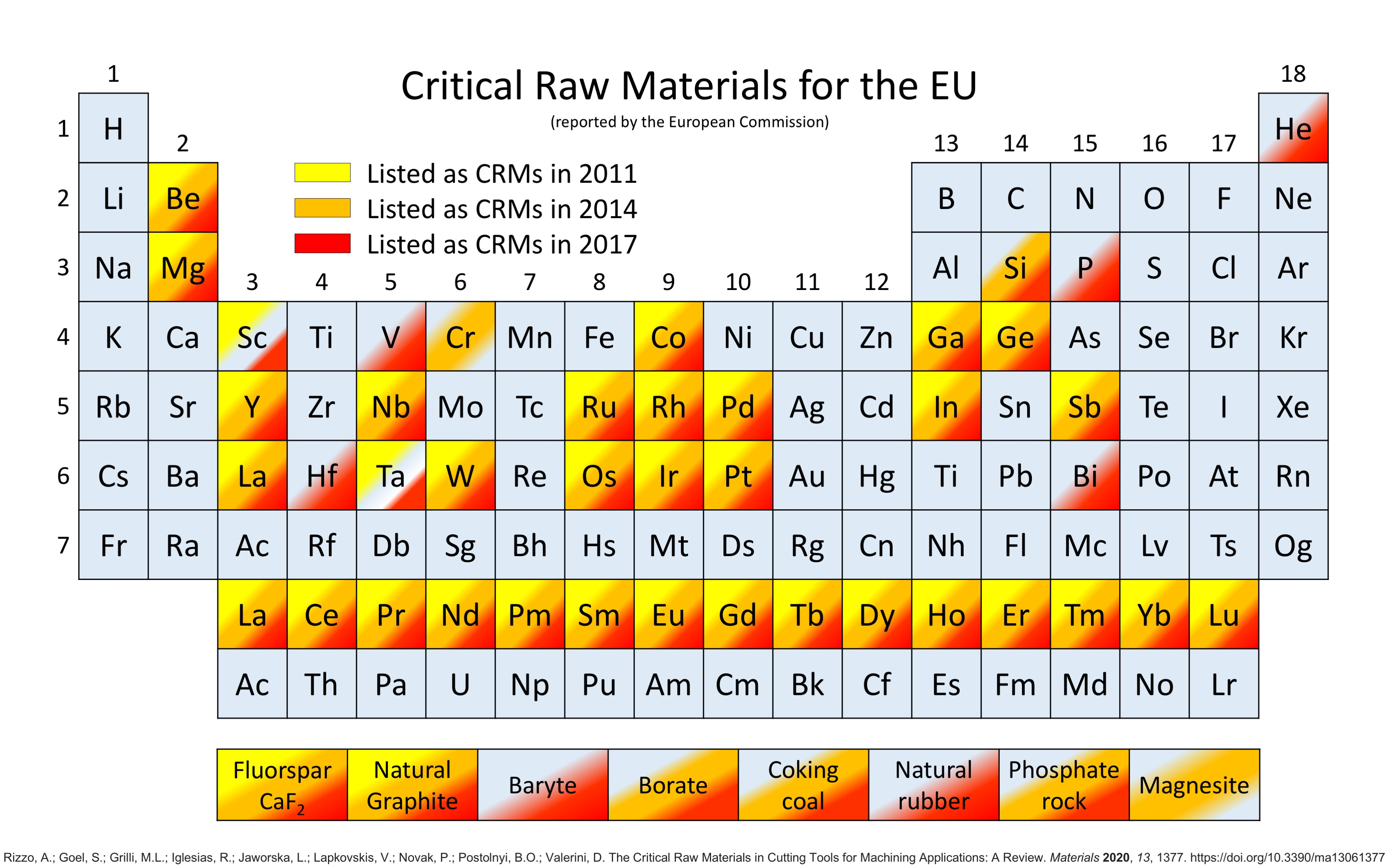 This is a summary of critical raw materials lists published so far, shown as a periodical table of elements with additional set of complex materials